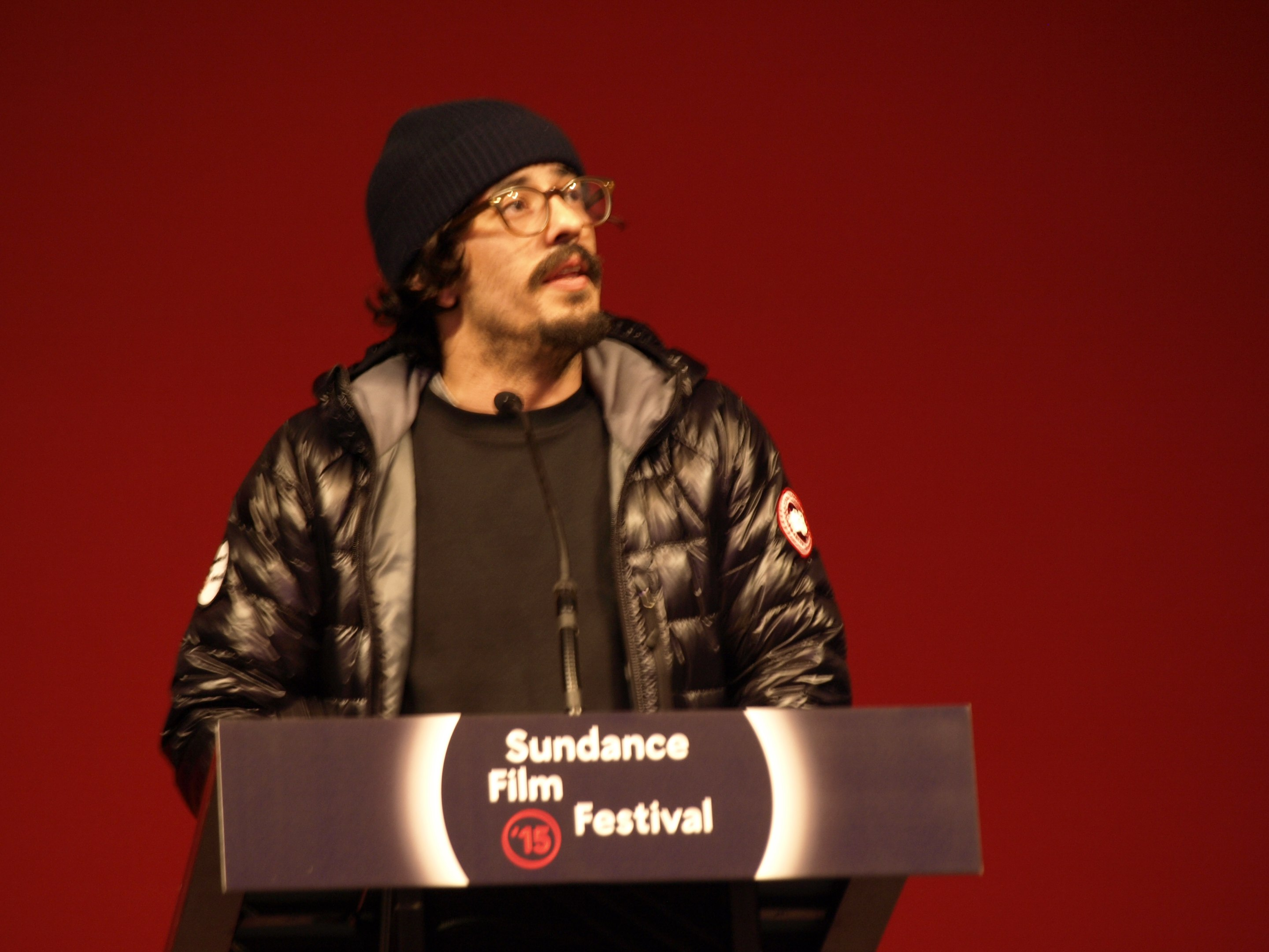 Josh Mond: Winner of the Audience Award: Best Of Next, "James White" at Sundance 2015